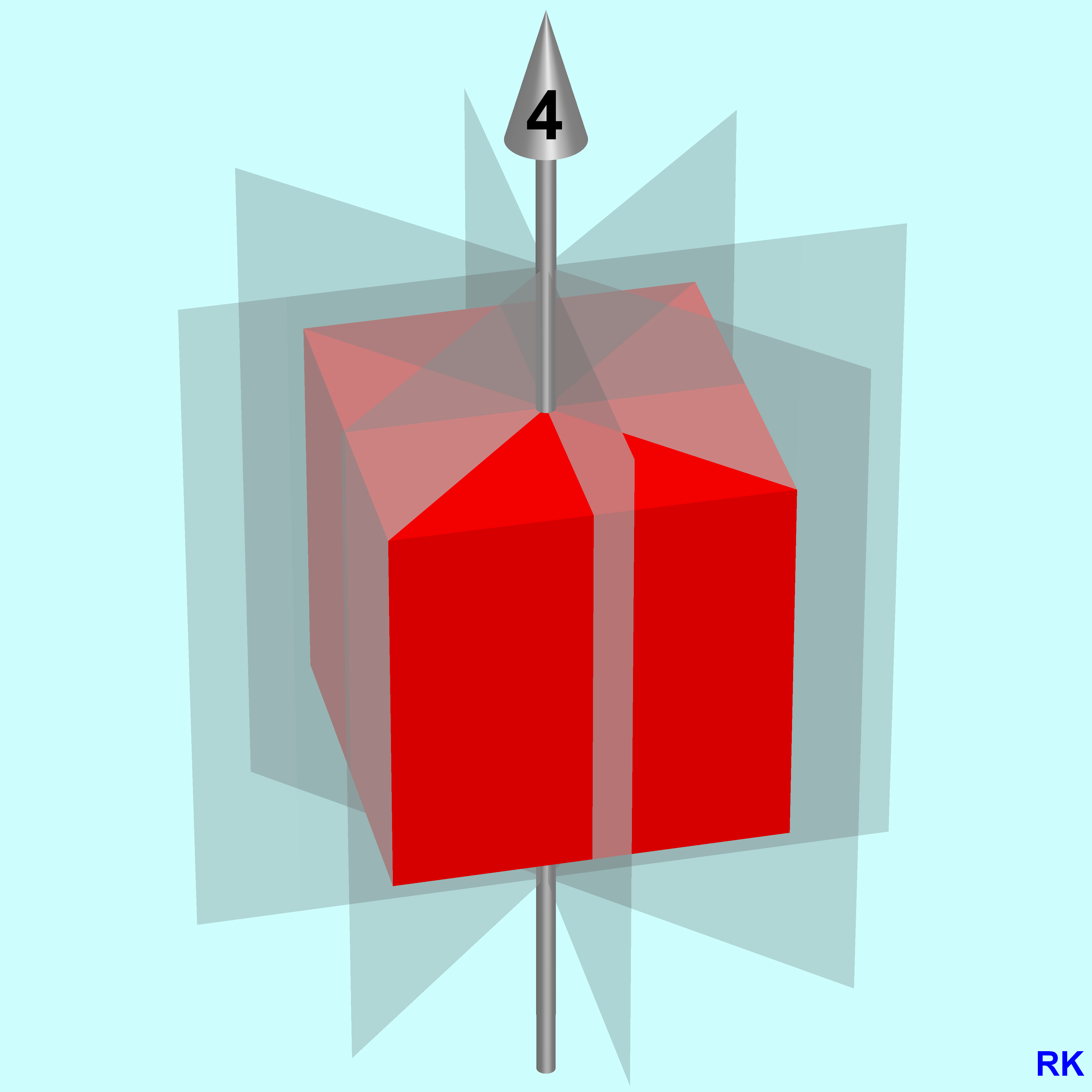 One of 13 rotation axes and 4 of 24 planes of reflection of a homogeneous cube